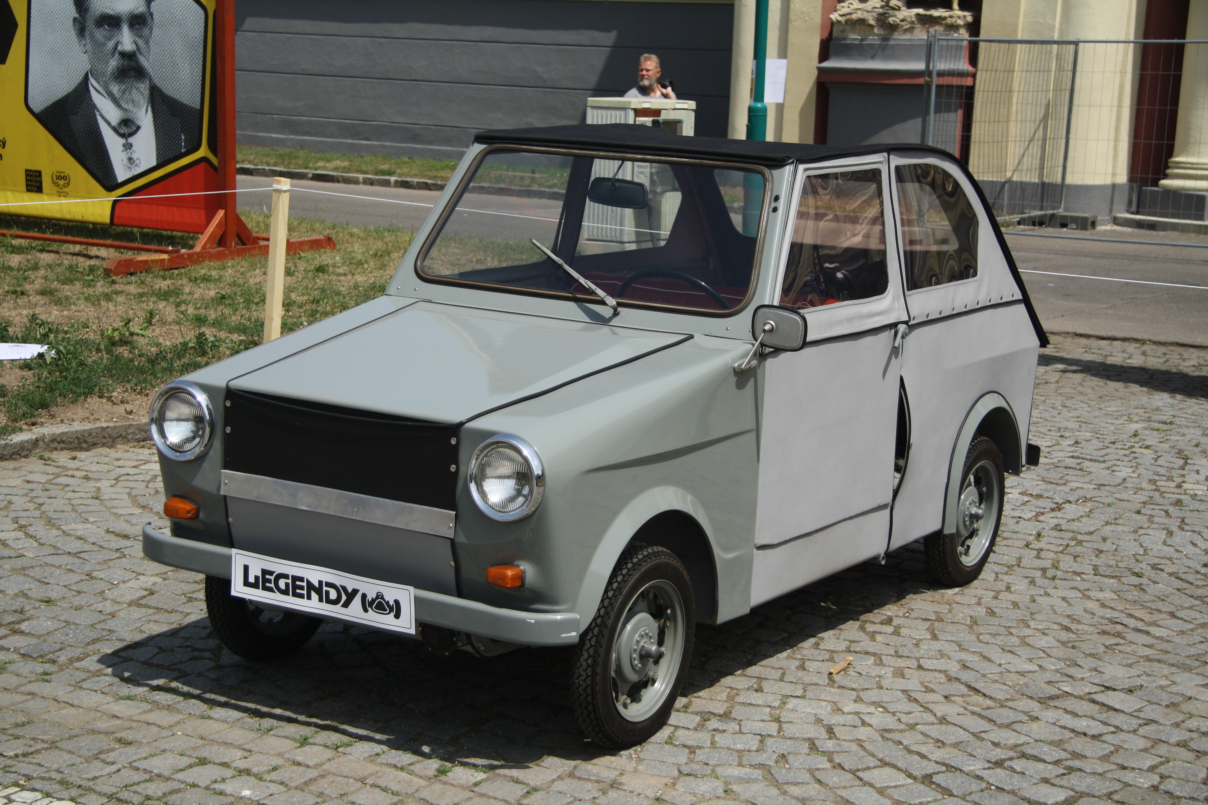 Velorex at Legendy 2018 in Prague.